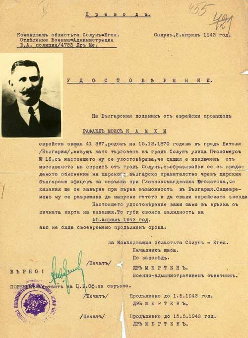 Certificat for bulgarian citizenship of Rafael Kamhi